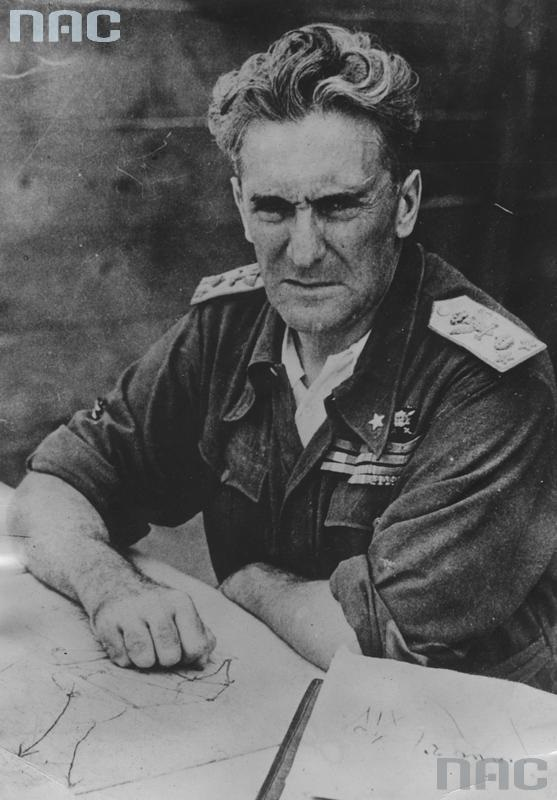 Italian Fascist Marshal Rodolfo Graziani